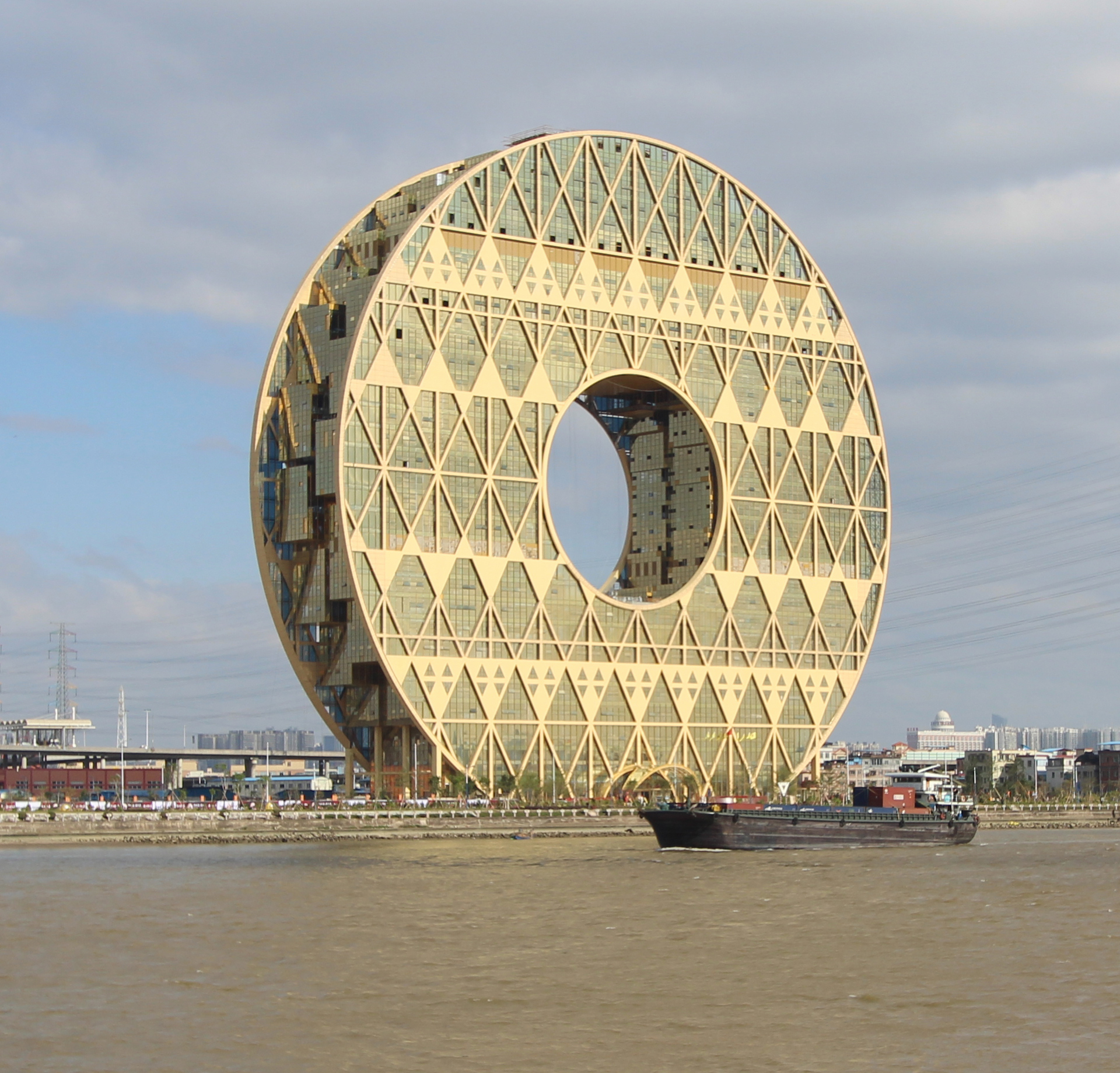 Guangzhou Circle viewed from the opposite side of the river